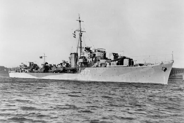 Photograph of British destroyer HMS Penn underway in coastal waters.